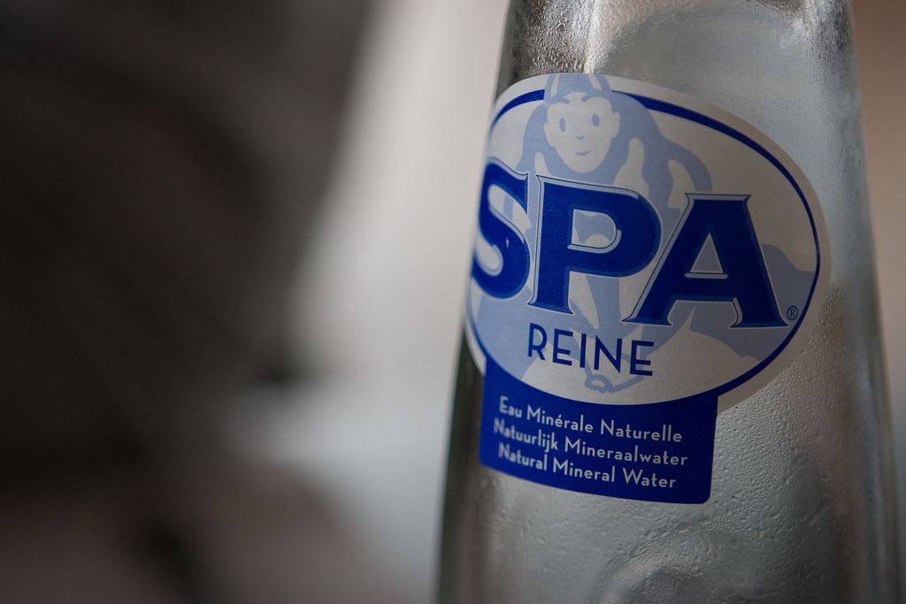 Spa sparkling water.